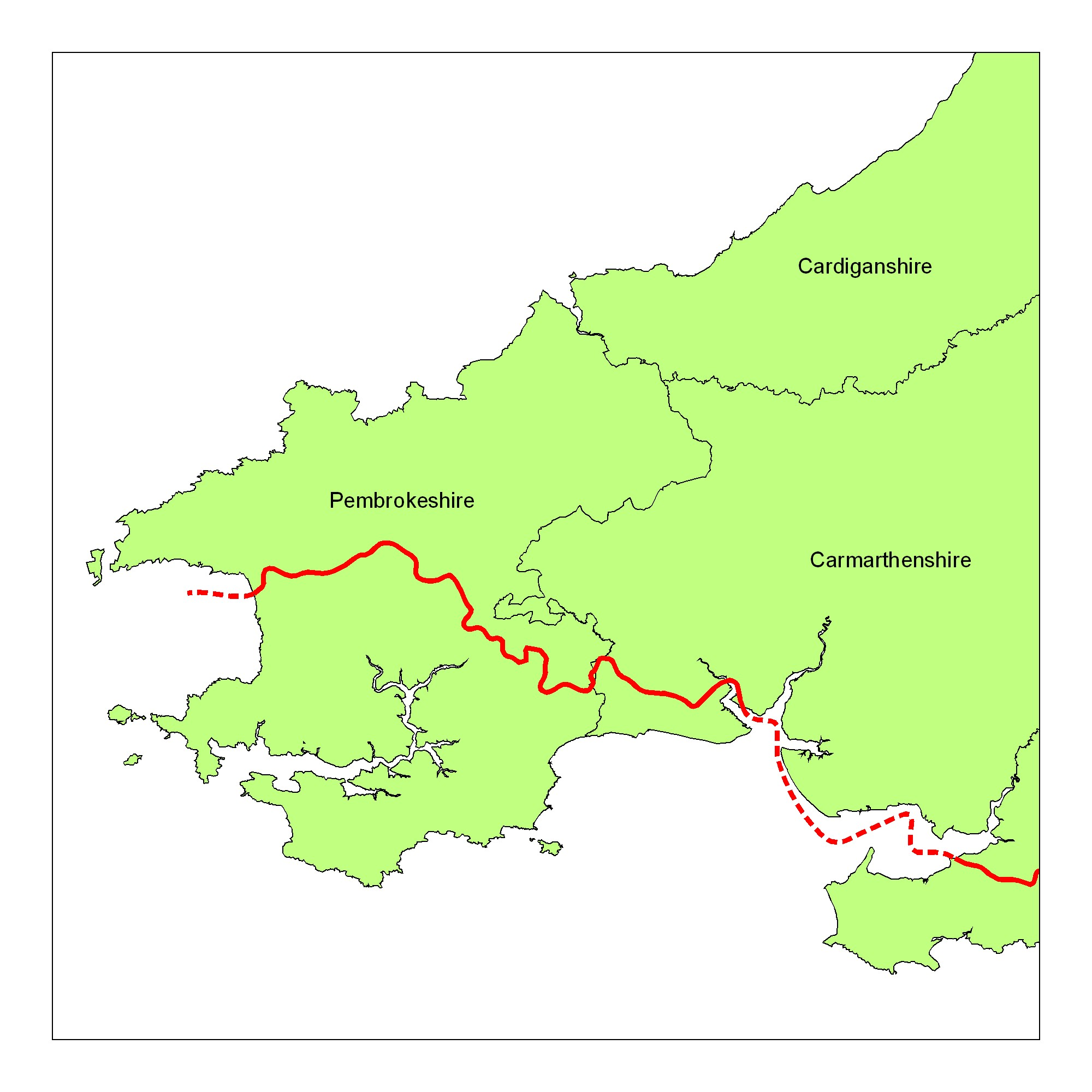 Author: Dylan Moore